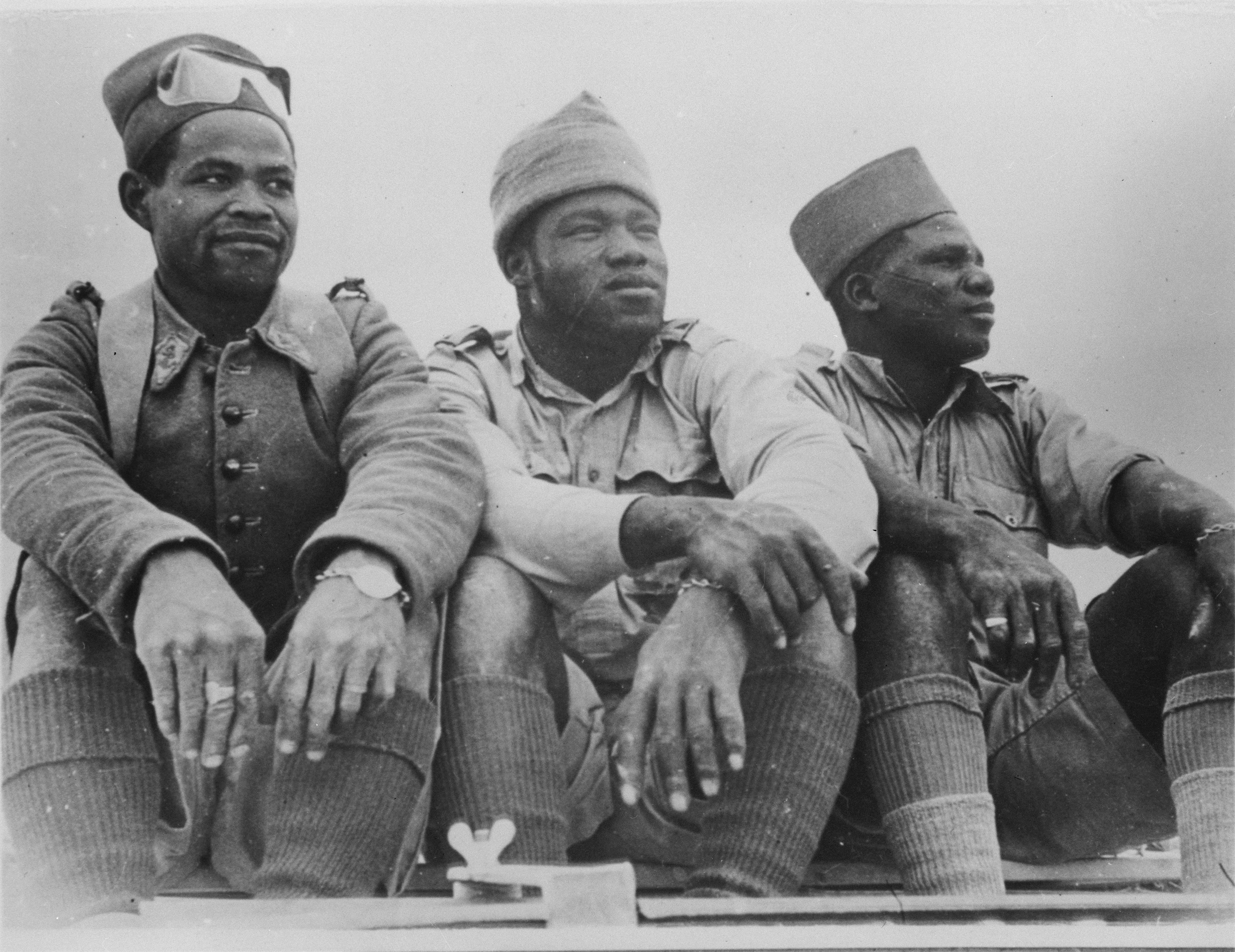 Cropped from the image in the link. Title: Three members of the Free French foreign legion who distinguished themselves in the battle at Bir Hacheim in the Western desert. They are from Senegal, Equatorial Africa, and Madagascar, respectively Date Created/Published: 1942? Medium: 1 negative ; 4 x 5 inches or smaller. Reproduction Number: LC-USW33-055038-ZC (b&w film neg.) Rights Advisory: No known restrictions on images made by the U.S. government; images copied from other sources may be restricted. For information, see U.S. Farm Security Administration/Office of War Information Black & White Photographs( Call Number: LC-USW33- 055038-ZC [P&P] Repository: Library of Congress Prints and Photographs Division Washington, D.C. 20540 Notes: Image source: Free French press. Title and other information from caption card. Transfer; United States. Office of War Information. Overseas Picture Division. Washington Division; 1944. More information about the FSA/OWI Collection is available at Subjects: Africa--North Africa. Format: Film negatives. Collections: Farm Security Administration/Office of War Information Black-and-White Negatives Part of: Farm Security Administration - Office of War Information Photograph Collection (Library of Congress) Bookmark This Record